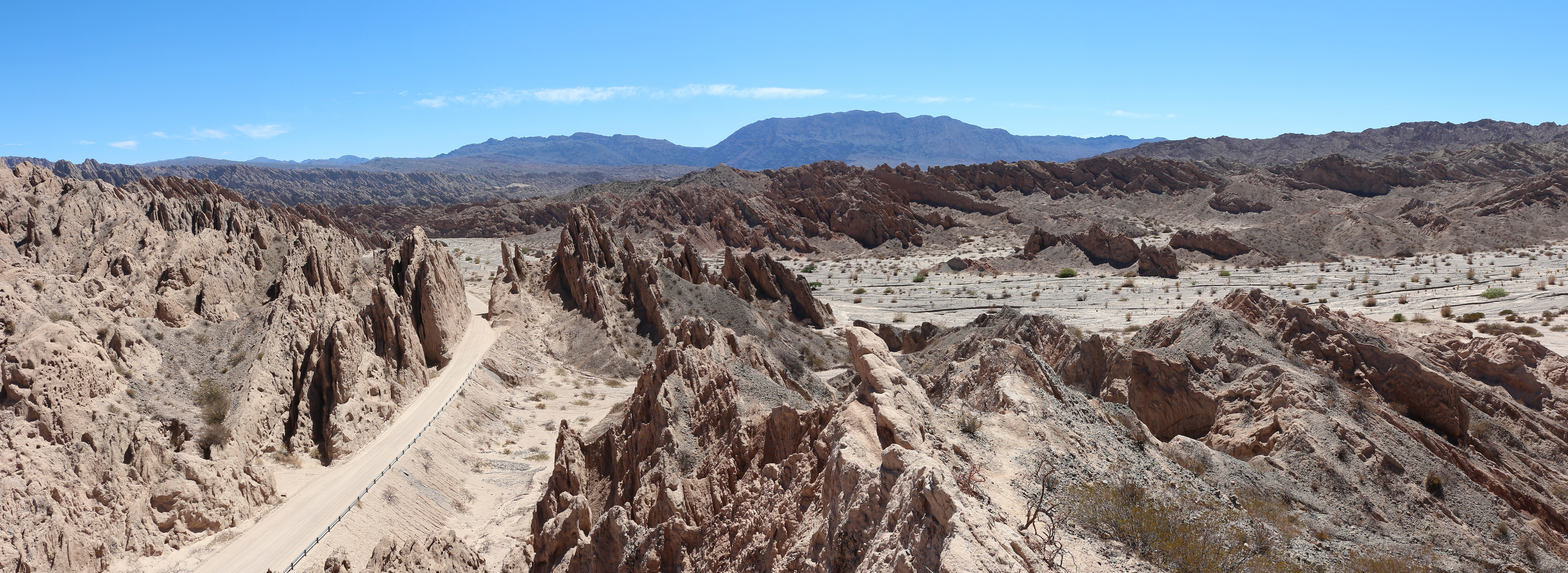 Quebrada de las Flechas, Argentina